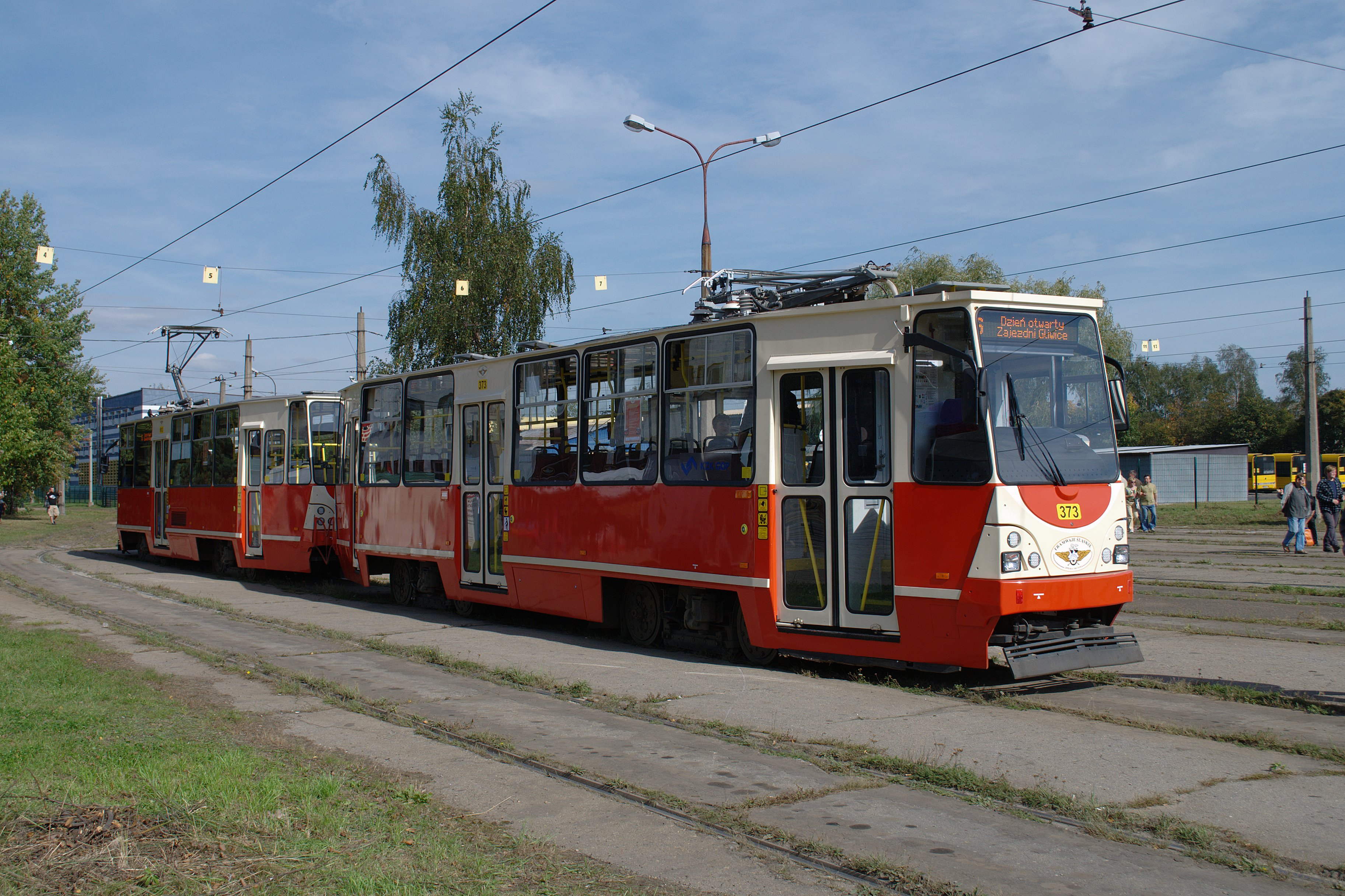 Modernized Konstal 111N tram.